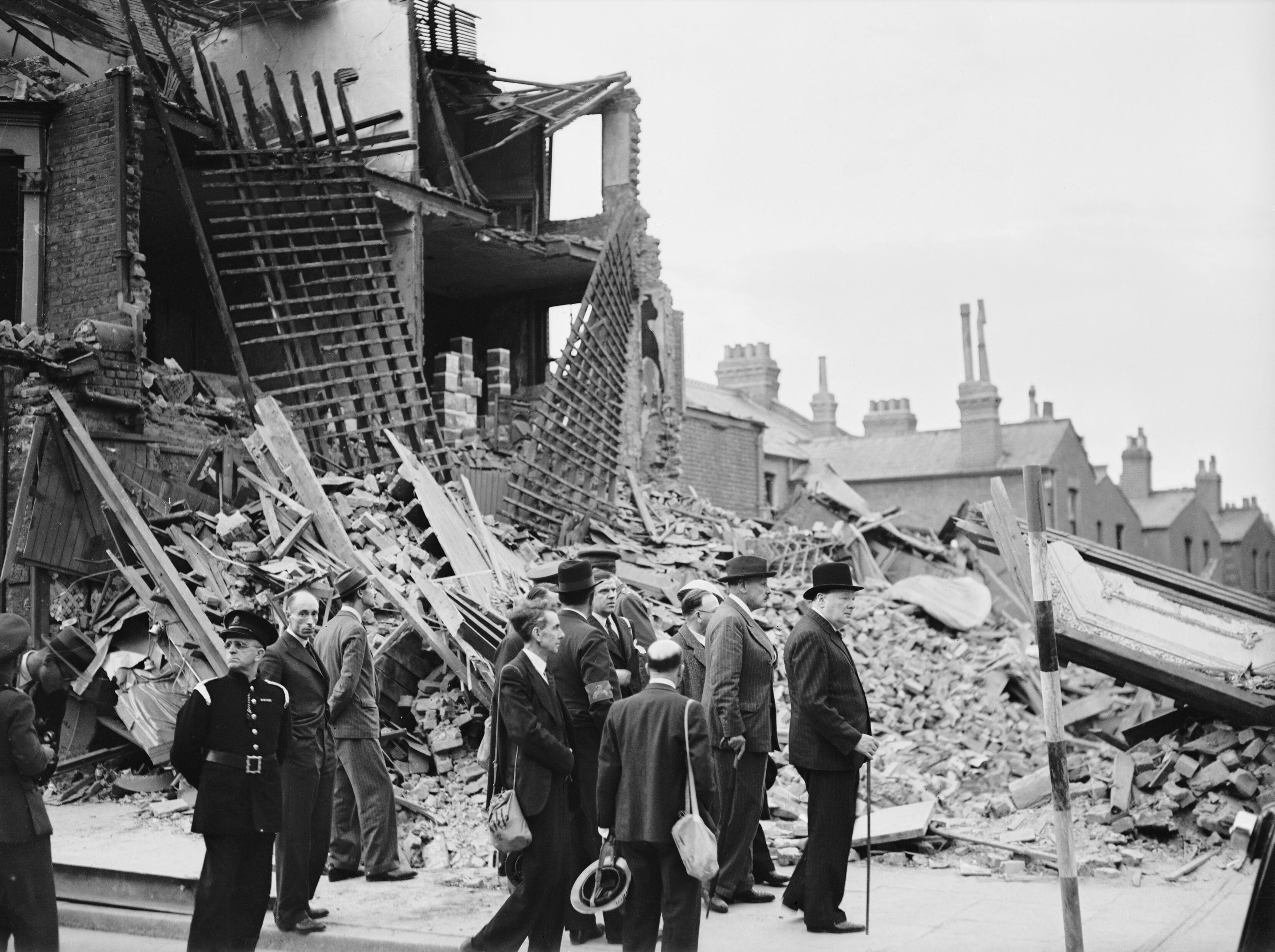 Winston Churchill visiting bomb-damaged areas of the East End of London, 8 September 1940. The Prime Minister Winston Churchill visits bombed out buildings in the East End of London on 8 September 1940.